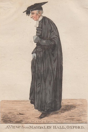 Henry Ford ('A view from Magdalen Hall, Oxford') - a hand-coloured etching, by and published by Robert Dighton in June 1808. See entry at the National Portrait Gallery Henry Ford was Principal of Magdalen Hall, Oxford, and Lord Almoner's Professor of Arabic.